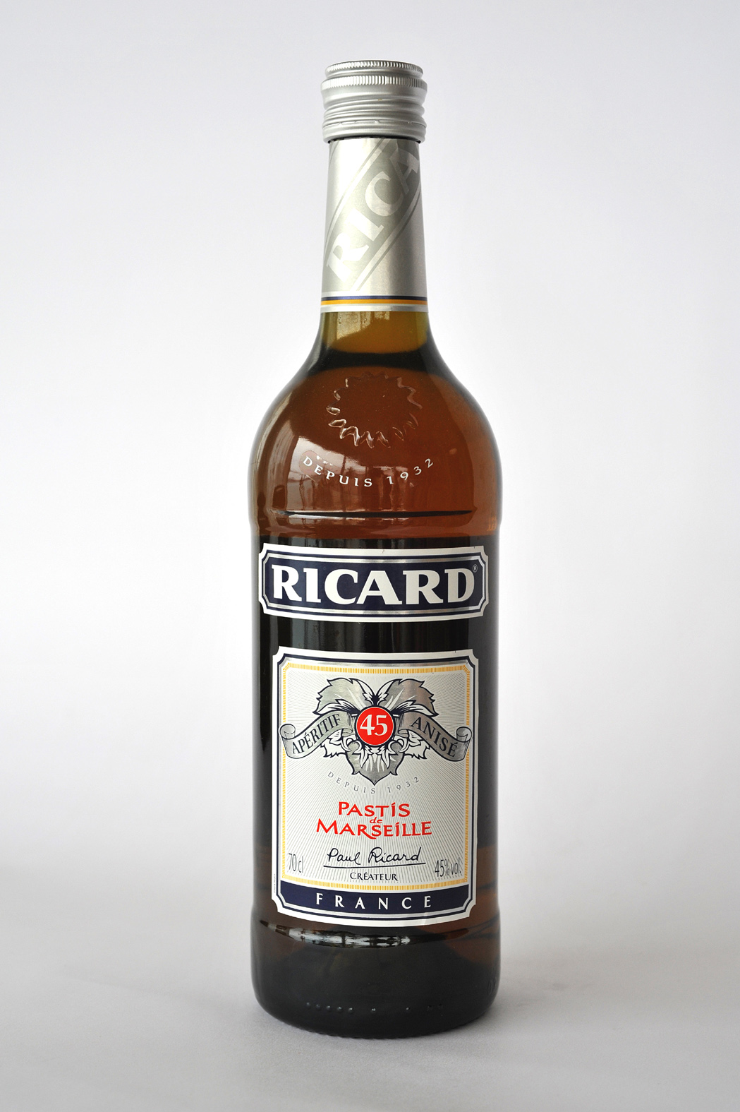 70 cl bottle of Ricard pastis.